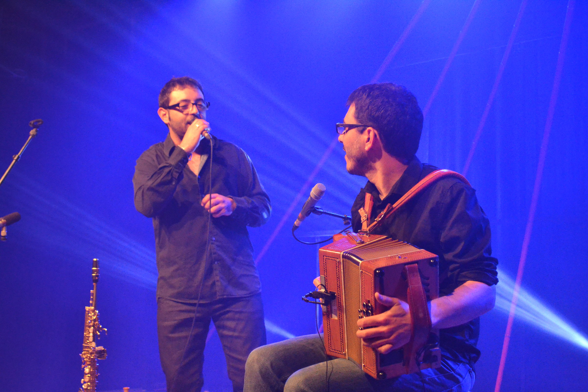 Brotto-Lopez during Primtemps de l'arribèra on 2015.